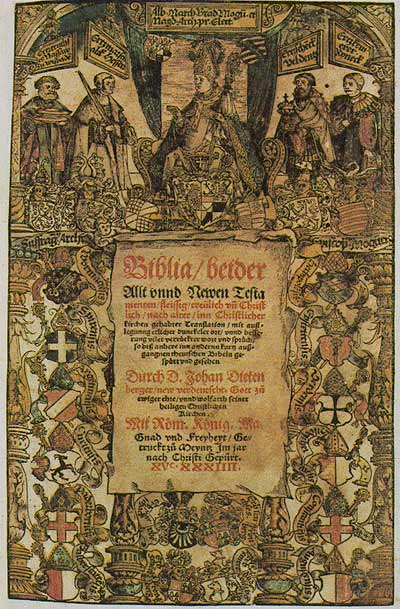 First catholic translation of the full Bible into German, from Johann Dietenberger, published in 1534, the same year Martin Luther finished his full translation